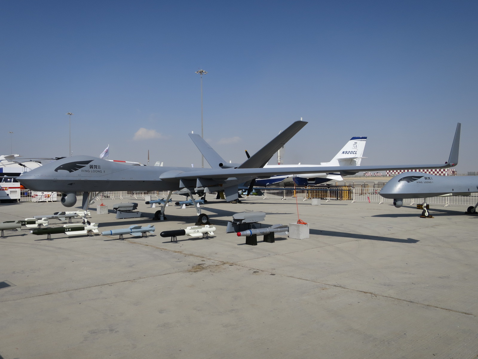 Wing Loong II side view, Dubai Air Show 2017